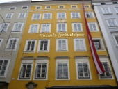 Mozart Geburtshaus